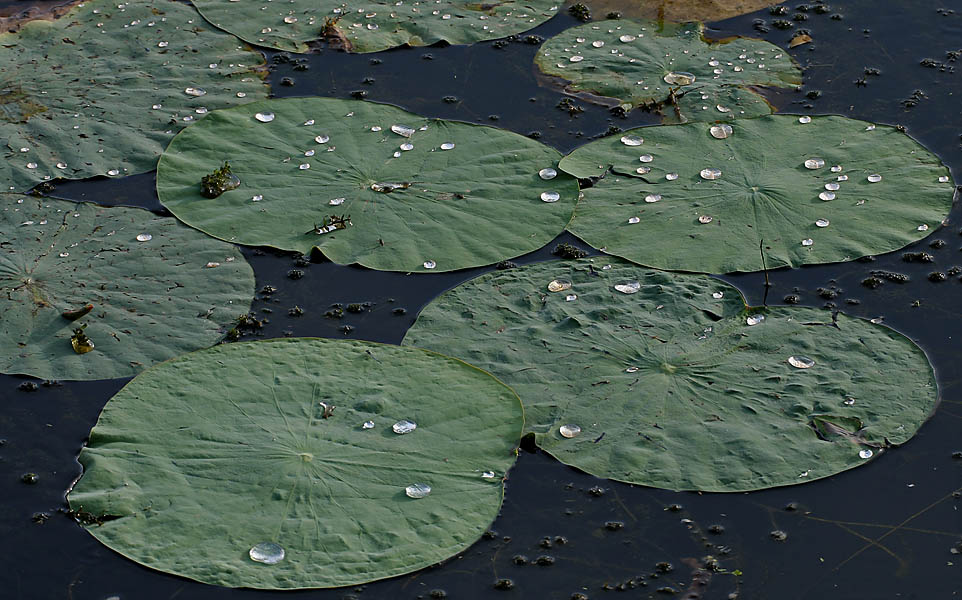 Indian lotus, sacred lotus or bean of India Nelumbo nucifera at Lotus Pond, Hyderabad, India.